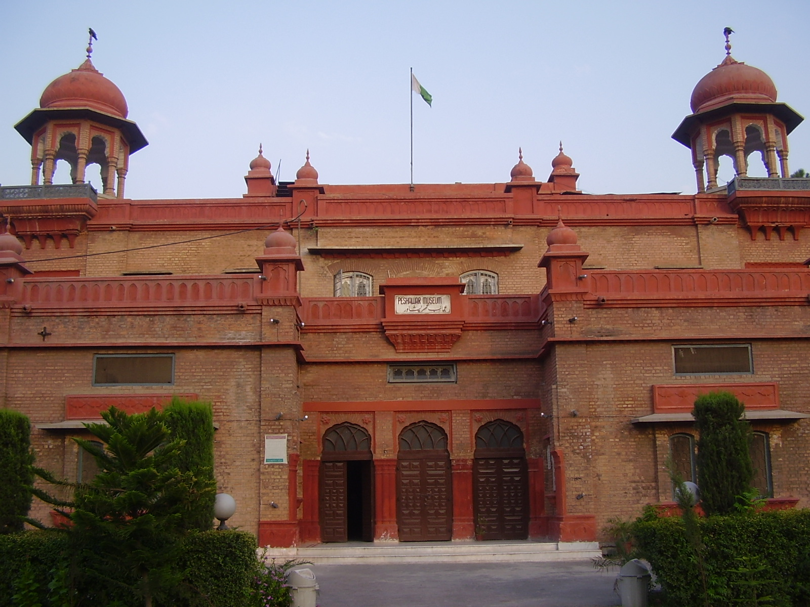 The Peshawar Museum, in Peshawar, Frontier Province, Pakistan The building is an amalgamation of British and Mughal architectural styles پنجابی: پشاور میوزیم